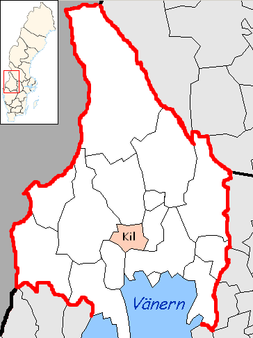 Kil Municipality in Värmland County Designd by me, based on Image:Värmland County.png